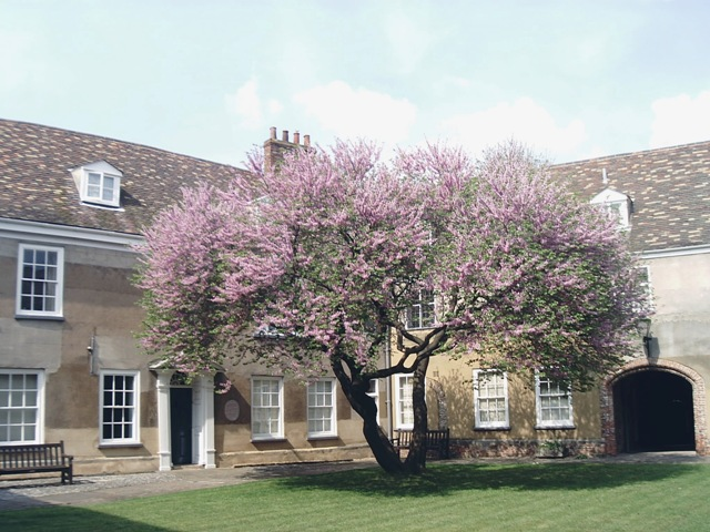 Courtyard of Thoresby College, Queen Street, King's Lynn Thoresby College is situated at the corner of Queen Street and College Lane. It was founded c.1500-10 by Thomas Thoresby to house priests serving the Holy Trinity Guild. By the mid-twentieth century it had become a bottling works but restoration work took place between 1963-8. The buildings currently include the local Citizens Advice Bureau, a youth hostel, public rooms and residential accommodation. The courtyard is notable for the Judas tree (Cercis siliquastrum) seen here in blossom.